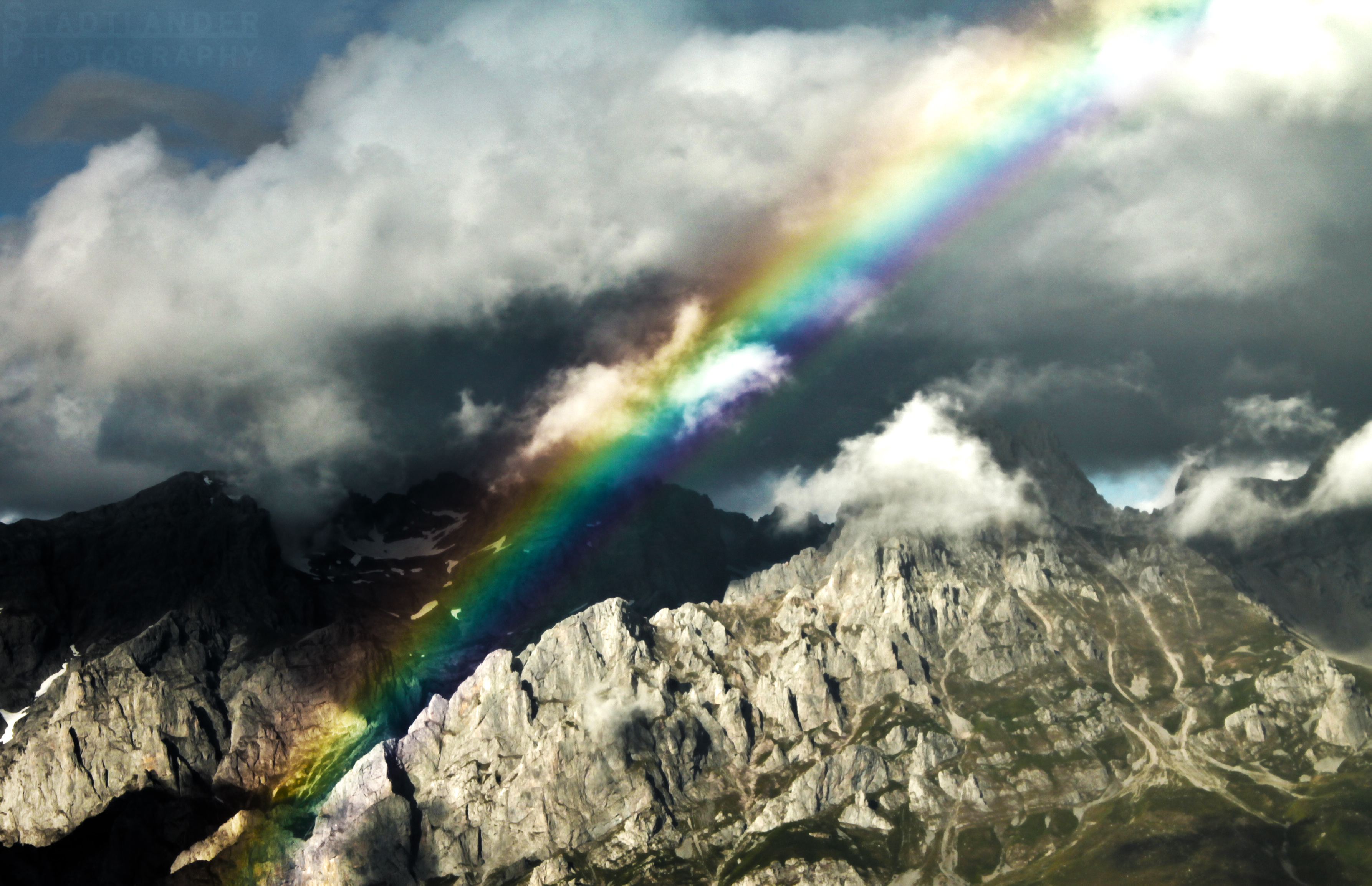 Rainbow in Cantabria (Spain).